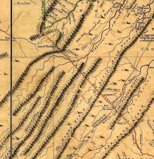 Detail from the “Fry-Jefferson map” of Virginia (1751) showing “Lord Fairfax his Boundary Line”. (Full name: “A map of the most inhabited part of Virginia containing the whole province of Maryland with part of Pensilvania, New Jersey and North Carolina.” Drawn by Joshua Fry & Peter Jefferson in 1751, published by Thos. Jefferys, London, 1755.)